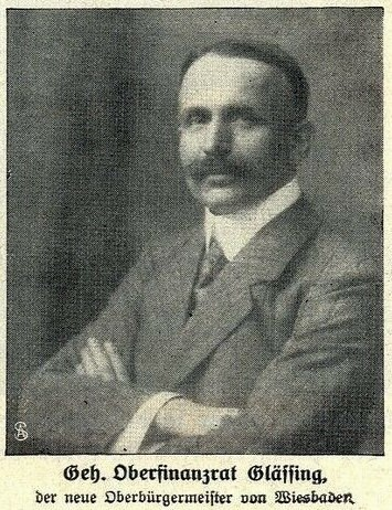 Geheimer Oberfinanzrat Karl Glässing, c. 1912